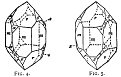 This image is taken from the s:1911 Encyclopædia Britannica, and is released into the public domain by age.